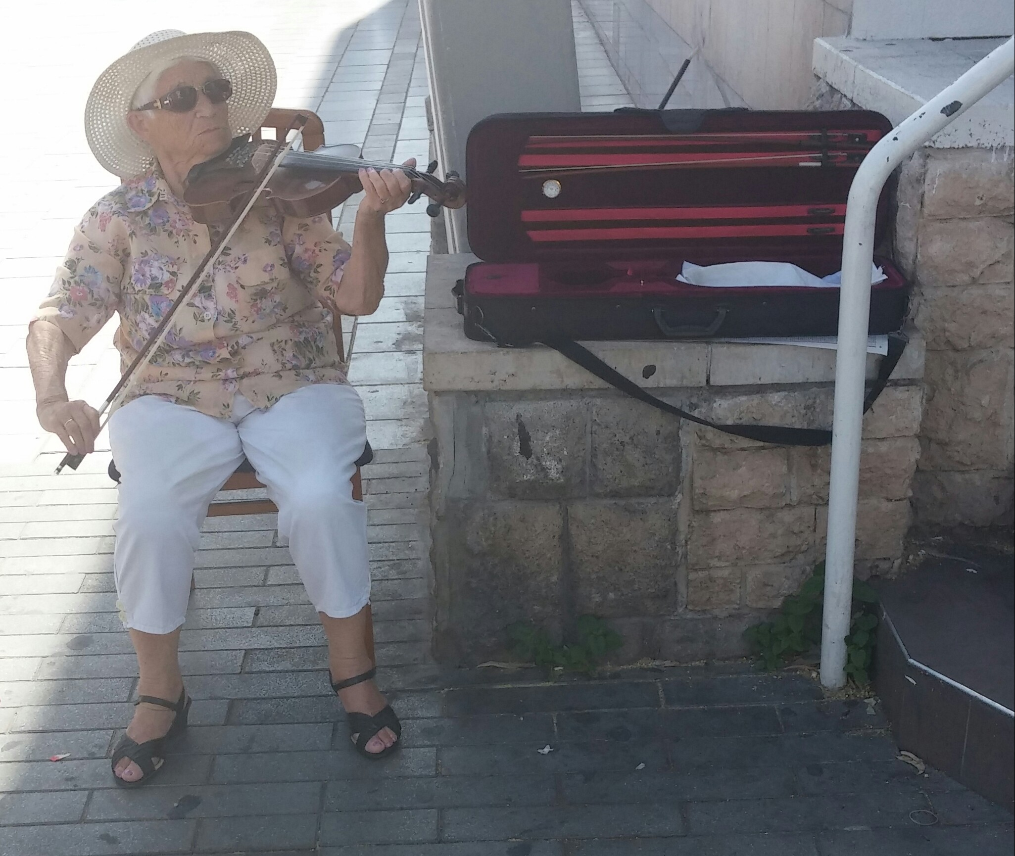 Female violinists on street corner in Rishon LeZion, Israel